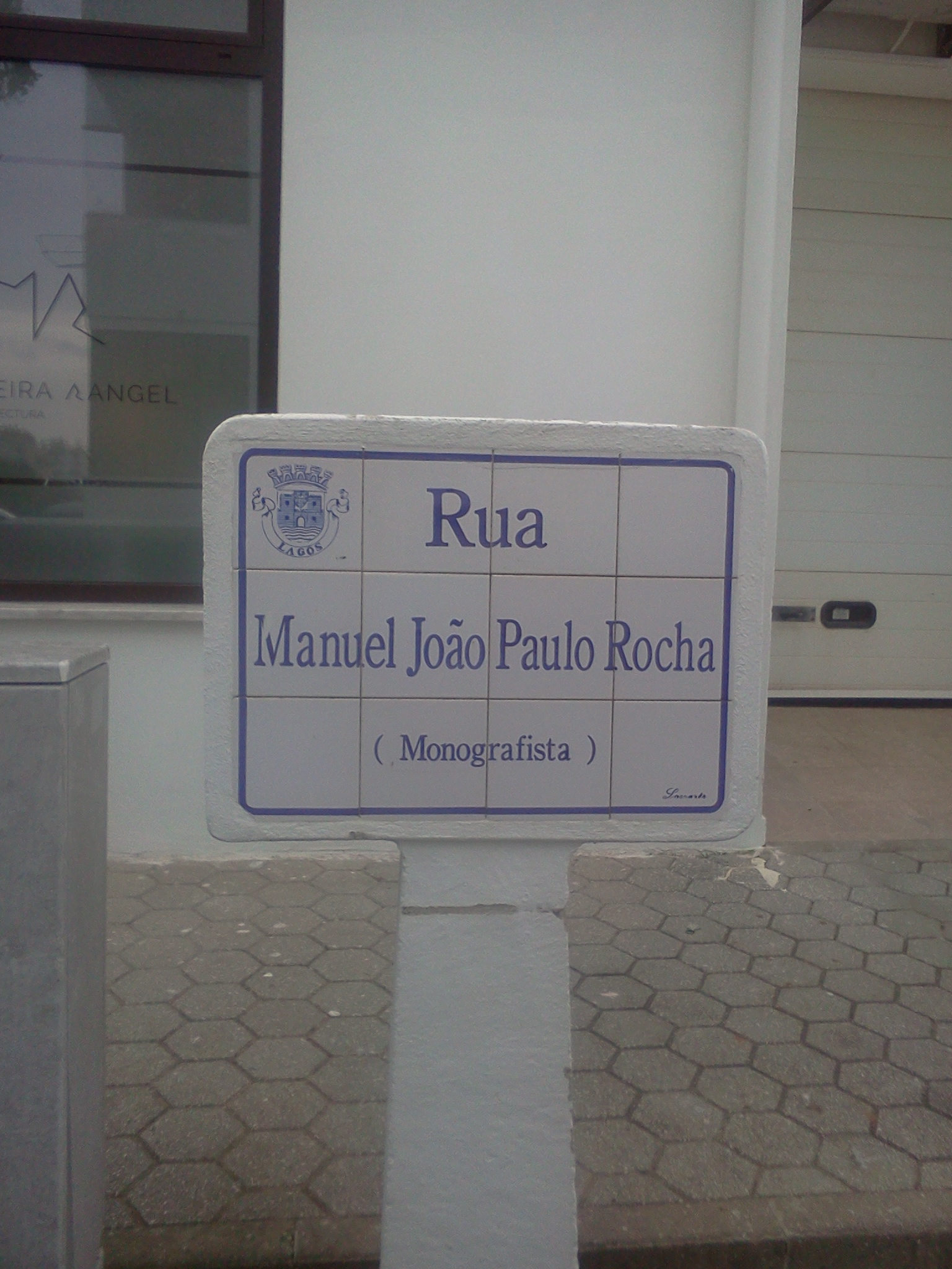 Street sign of Rua Manuel João Paulo Rocha, in the city of Lagos, in southern Portugal.